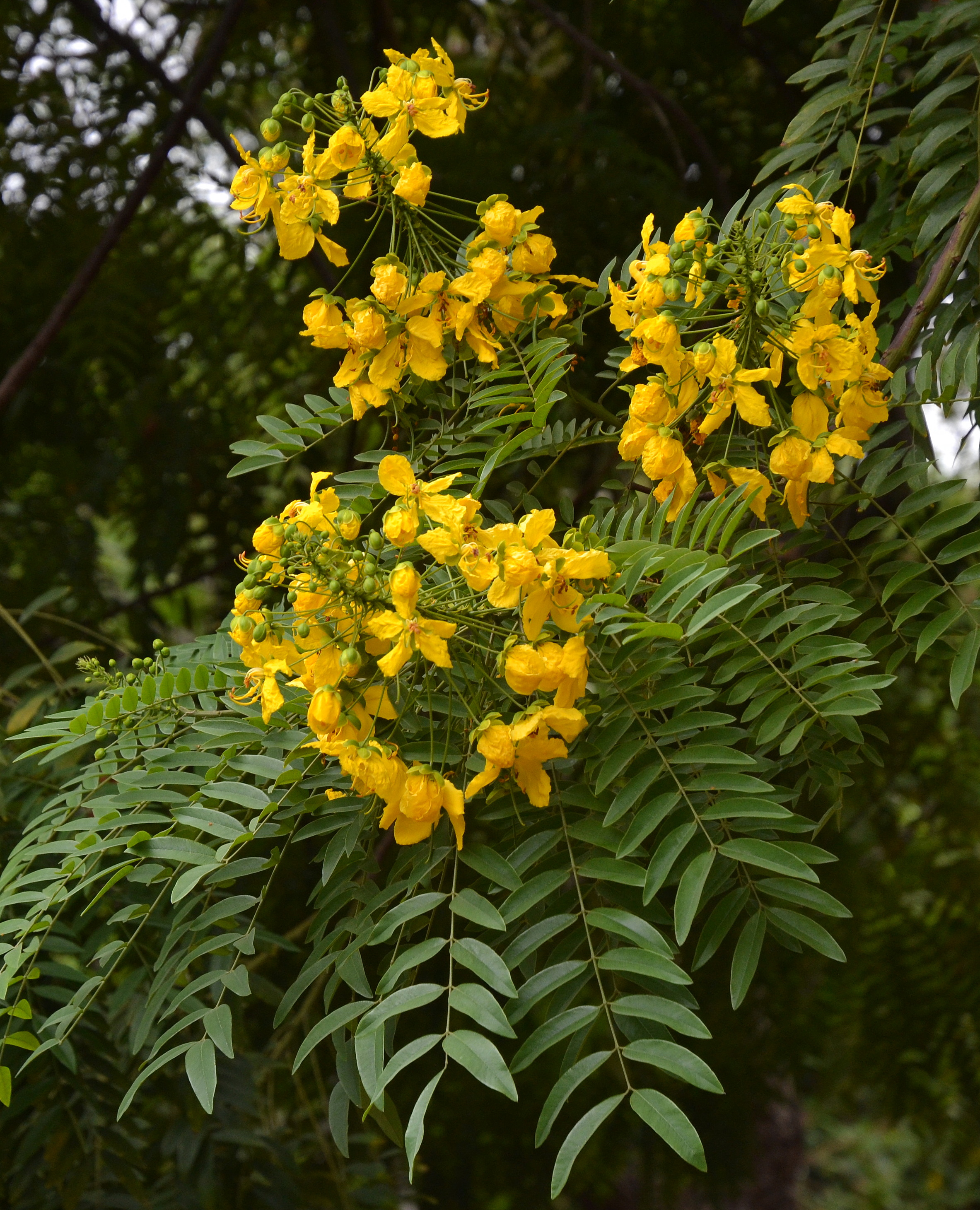 (July 8th, 2015) Gold Medallion tree (Cassia leptophylla, pea family, Southeastern Brazil). Los Angeles County Arboretum and Botanic Garden. Arcadia, California. Latitude: 34.1440620 Longitude: -118.0507584